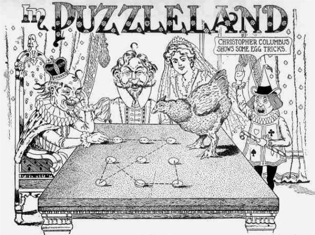 "Christopher Columbus's Egg Puzzle" illustration by Sam Loyd